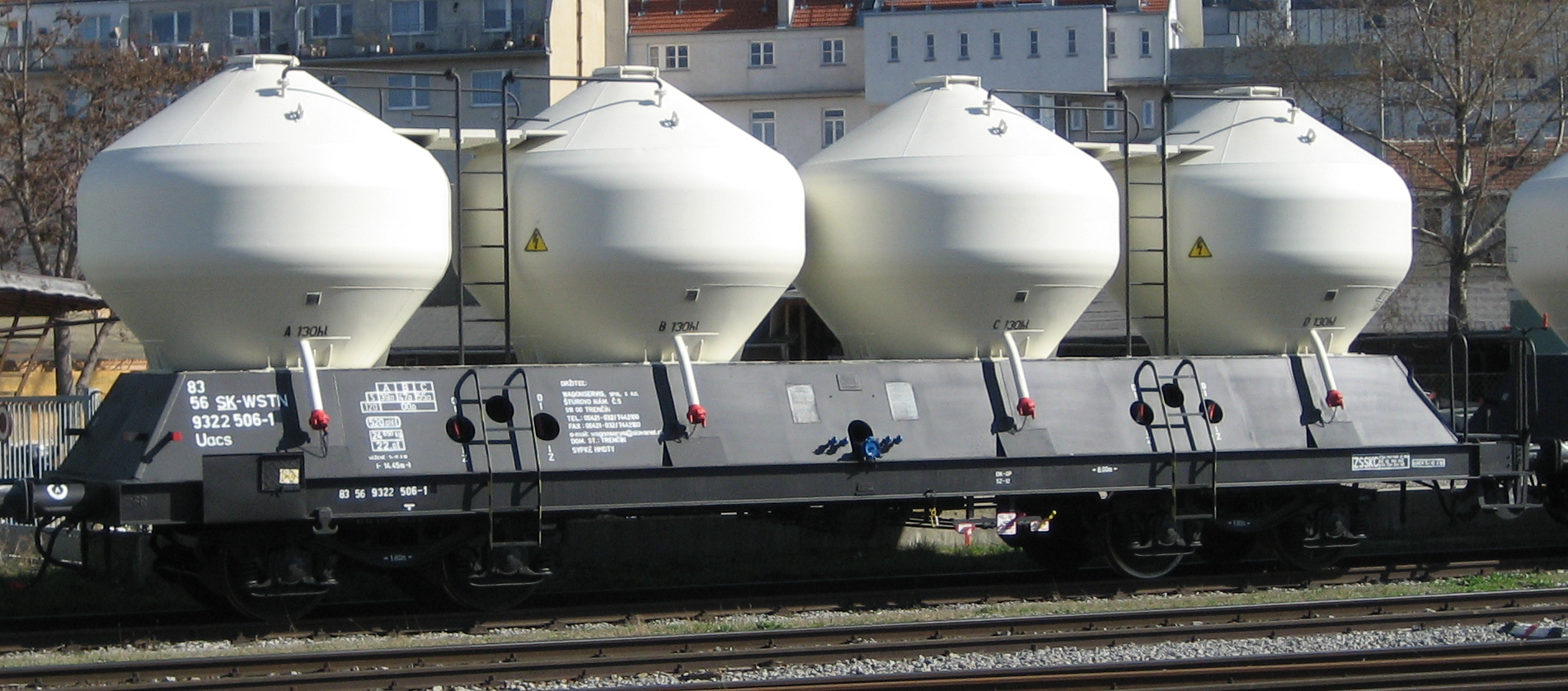 Uacs silo railway wagon used for the transport of cement